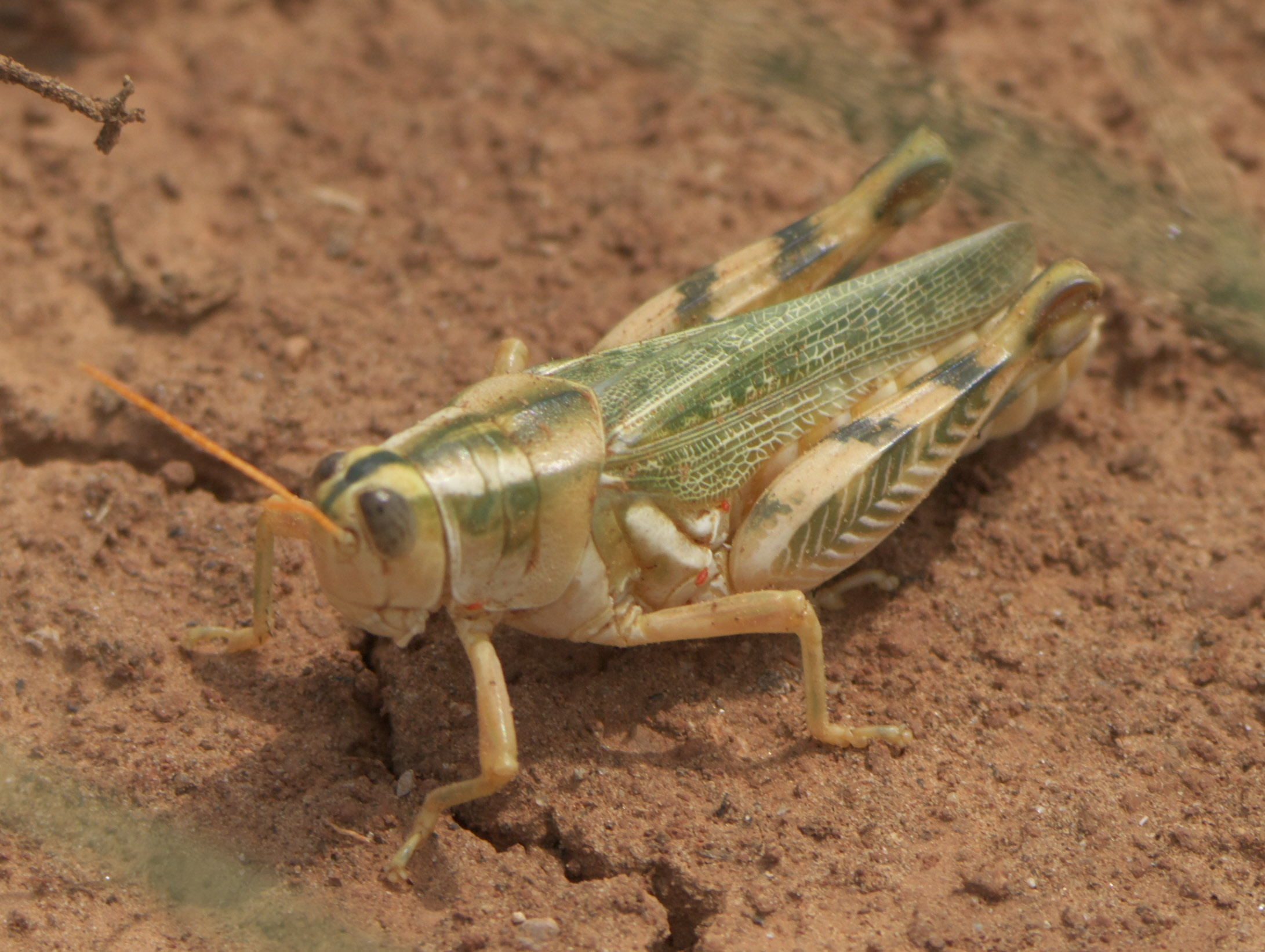 Aeoloplides turnbulli, Thistle Grasshopper, female, ID Confidence: 98